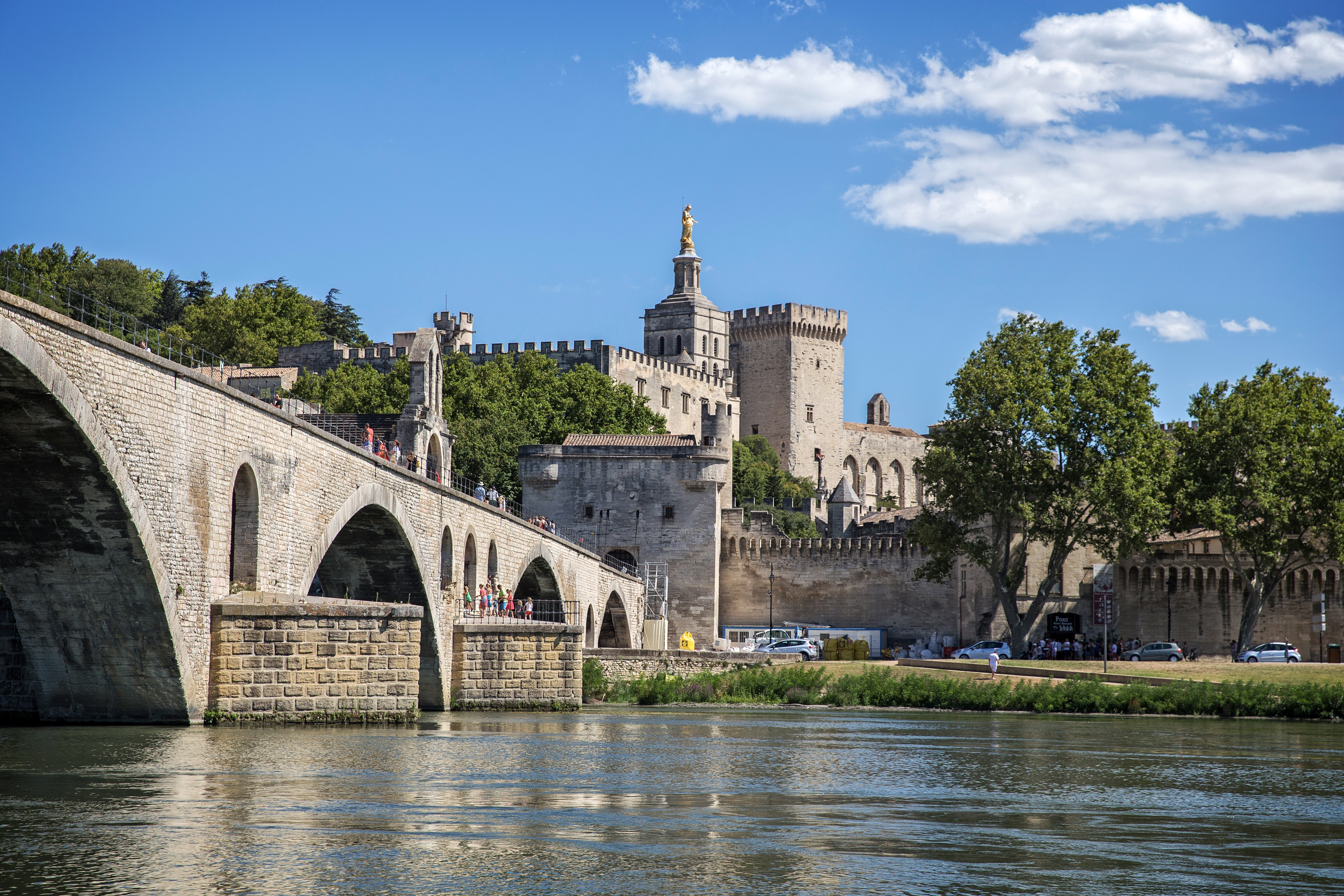 Bridge Of Avignon Vaucluse France Avignon